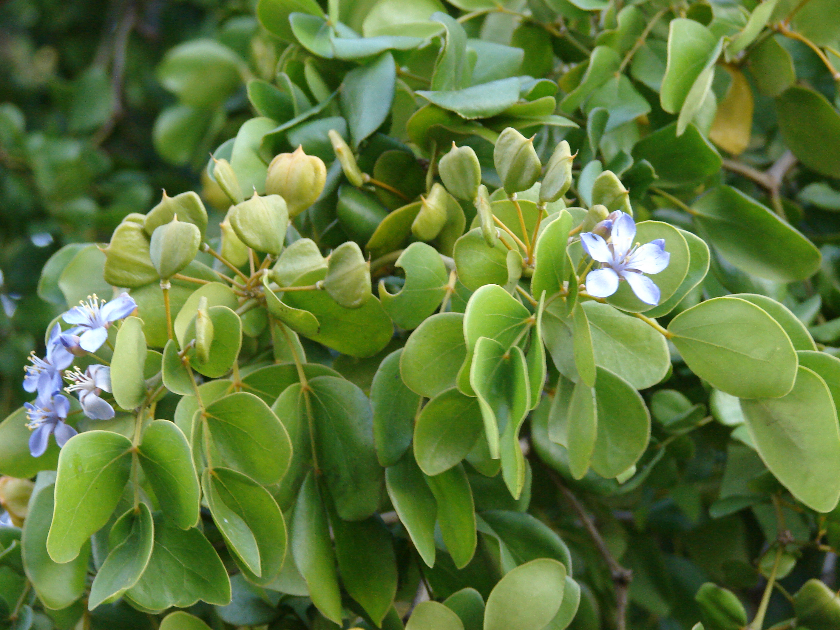 Guaiacum officinale (leaves flowers and fruit). Location: Oahu, Ala Moana Beach Park